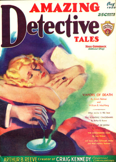 Cover of the August 1930 issue of Amazing Detective Tales painted by Earle K. Bergey.